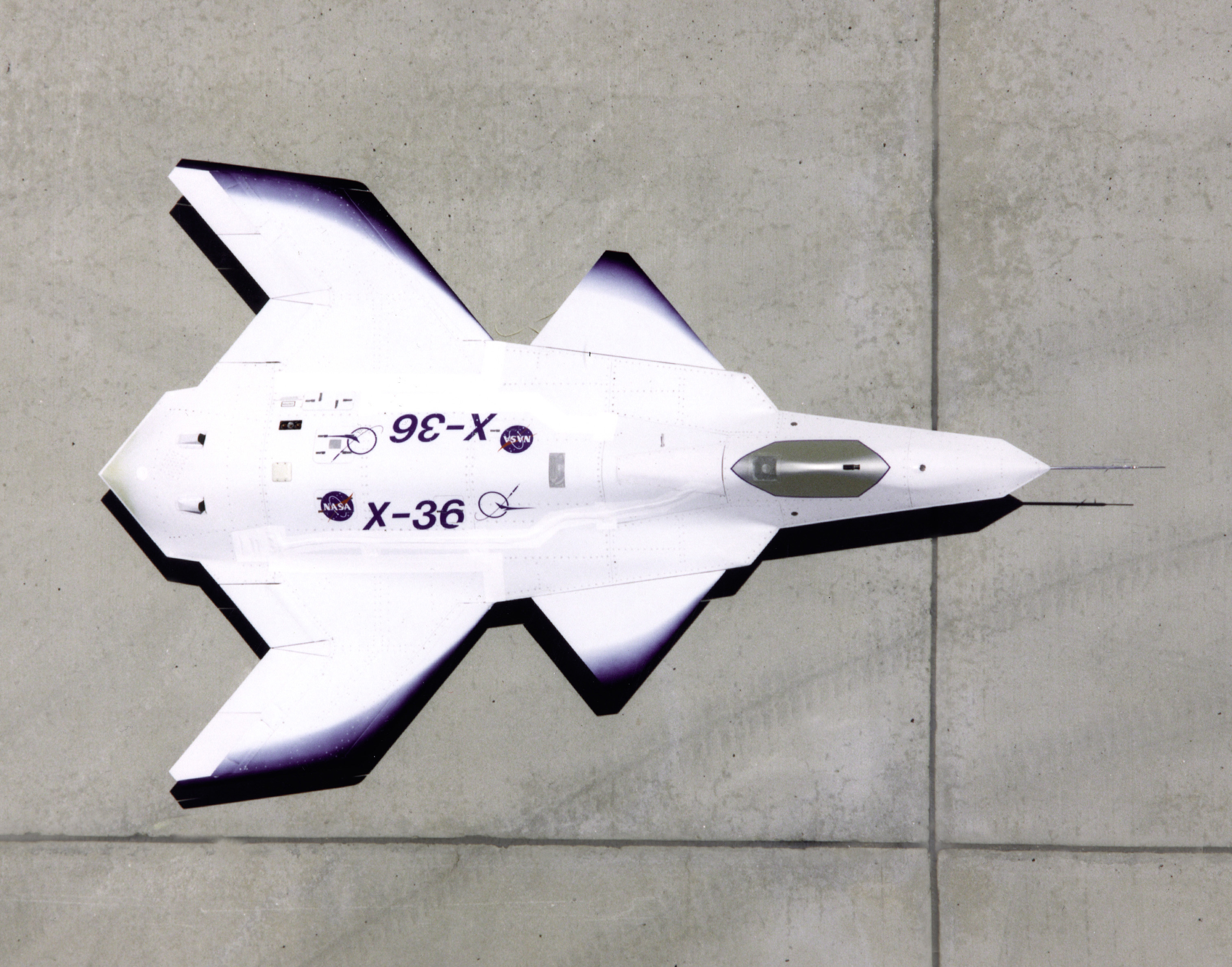 NASA Dryden Flight Fesearch Center, Edwards California is hosting the X-36 program, as well as providing range support for the flight tests. NASA Ames Research Center, Moffett Field, California originated the X-36 program and is managing the program in a cooperative effort with the McDonnell Douglas Corporation. MDC's responsibilities include flight preparation and testing, data acquisition and analysis. The X-36 is a small, remotely-piloted jet built by MDC and designed to fly without the traditional tail surfaces common on most aircraft. Two 28 percent scale vehicles will be put through fighter aircraft maneuvers during the scheduled 25 flight program. The goal is to gather data on the performance characteristics, especially agility, of tailless, fighter type aircraft. The lack of vertical tails on the X-36 greatly enhances the stealthy characteristics of the airplane, and holds promise for greater agility than is currently available in existing fighter aircraft. The X-36 is 18 feet long with a 10 foot wingspan, is 3 feet high, and weighs 1,270 pounds.